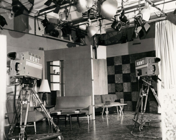 A photograph of the cameras along with different sets of KUHT programming.